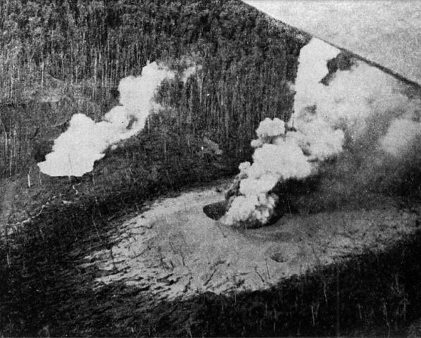 Waiowa (also known as Goropu) is an isolated pyroclastic cone that was formed during 1943-44 by explosive eruptions through Paleozoic to pre-Cambrian metamorphic rocks. The active vents, seen here on February 14, 1944, were formed in an area without previous volcanic activity. Intermittent minor explosions began on September 18, 1943. Larger explosions occurred on December 27, 1943, and on February 13 and July 23, 1944. After the final eruption on August 31, the volcano was capped by a 500-m-wide crater that now contains a small lake.